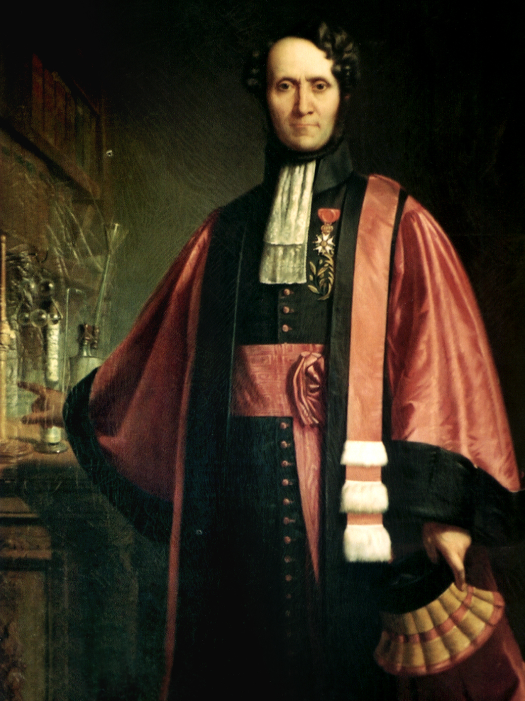 Portrait of Faustino Malaguti (1802 - 1878) - Original painting presented in the salon d'honneur of the palais Saint-Melaine, Rennes (Brittany, France)